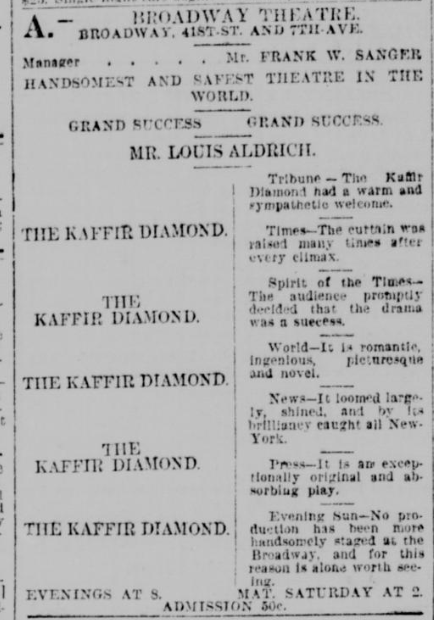 Advertisement for "The Kaffir Diamond", play at the Broadway Theatre, appearing in the New York Tribune on September 23, 1888.